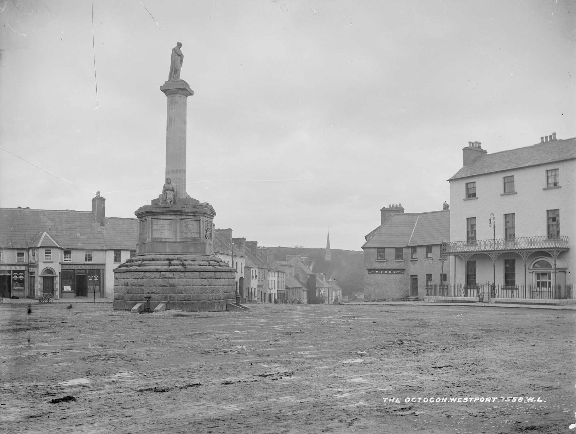 For many towns a four-sided square is sufficient. Not so for the "planned town" of Westport - where norms are doubled to form "the Octagon". The octagonal monument in the centre was originally erected in the mid-19th century in memory of a wealthy local - a decade or so ahead of the first date in our catalogue's "1865-1914" range. But we wondered whether we could refine the date range for this Lawrence/French shot. That the statue still had a head and appeared unaffected by damage that [/photos/beachcomberaustralia/ beachcomberaustralia] noted confirmed that the image likely didn't exceed the late 1910s. However, our eagle-eyed sleuths were able to refine further. [/photos/129555378@N07/ sharon.corbet] was quick to point out that the distant spire put the earliest date in the 1870s. [/photos/91549360@N03/ O Mac PRO] suggested that the electric lights might imply an early 20th-century date - and this seems to have been confirmed by a "1902" date in the graffiti spotted by [/photos/beachcomberaustralia/ beachcomberaustralia] (and corroborated by [/photos/gnmcauley/ Niall McAuley] and [/photos/8468254@N02/ derangedlemur]). Ultimately through the community's efforts we have learned that the monument did succumb to various attempts, and the original statue of George Glendenning (1770-1843) was replaced by one of St Patrick in the late 20th century... Photographer: French, Robert (1841-1917) Contributors: Lawrence, William (1840-1932) Collection: Lawrence Photograph Collection Date: Listed as ca. 1865-1914 (but likely ca. 1902) NLI Ref: L_ROY_07558 You can also view this image, and many thousands of others, on the NLI’s catalogue at